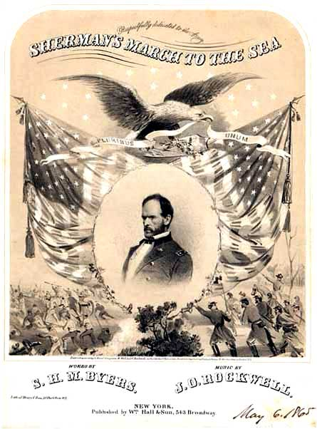 Cover of sheet music for "Sherman's March to the Sea"